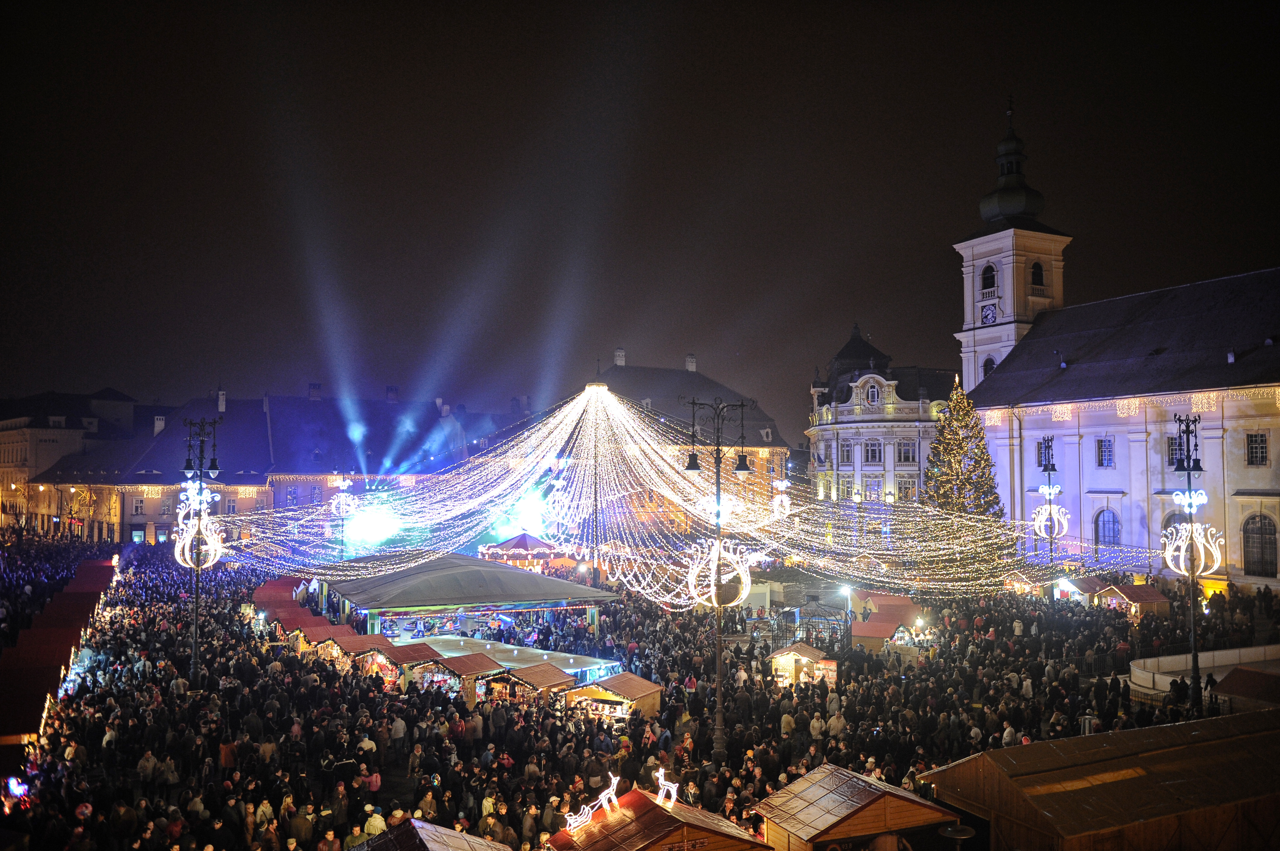 Sibiu Christmas Market opening 2012 - 24.11.2012